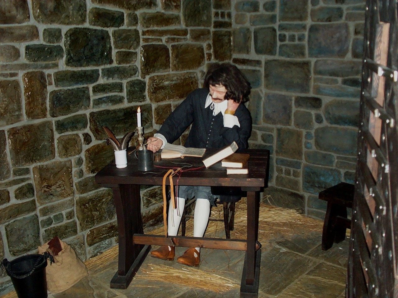 A life size model of John Bunyan in his prison cell in the John Bunyan Museum, Bedford.